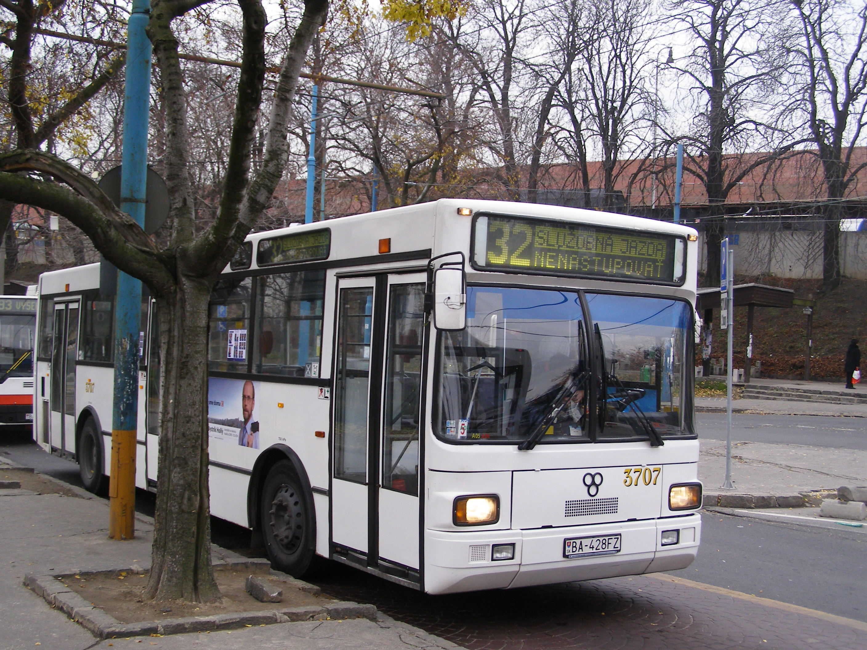 Bus TAM 232 A 116 M in Bratislava. Year built 1995. DP Bratislava company.